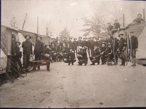 Members of the 2nd Arkanas Infantry, prior to World War I, possibly during the Spanish American War.